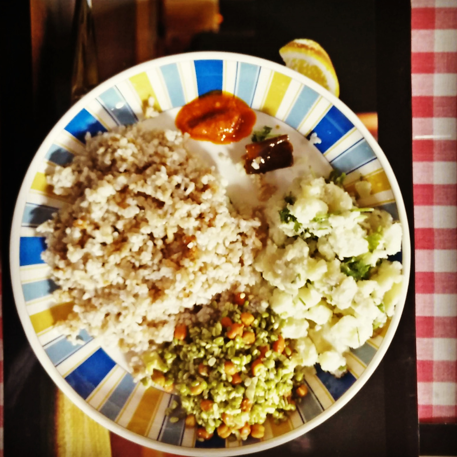 A mid morning meal of Komal Chaul (Soft Rice) with soaked lentils and black grams, mashed potato, Bhoot jolokia (Ghost Chilli) pickles. It cannot get better. Komal chaul (soft rice) is a unique variety of rice that is only available in Assam , doesn't even require cooking.It just needs to be soaked in water for about an hour and it is ready to eat. Komal Chaul can be served with yoghurt and jaggery or it can also be served with a pinch of salt , ginger and raw mustered oil . It is one of the healthy diets during summer , keep the stomach light and avoid any disorder. The description of Komal Chaul is from